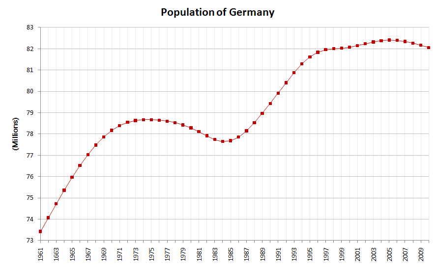 Germany's population (1961-2010) :Y-axis: Number of inhabitants in millions.